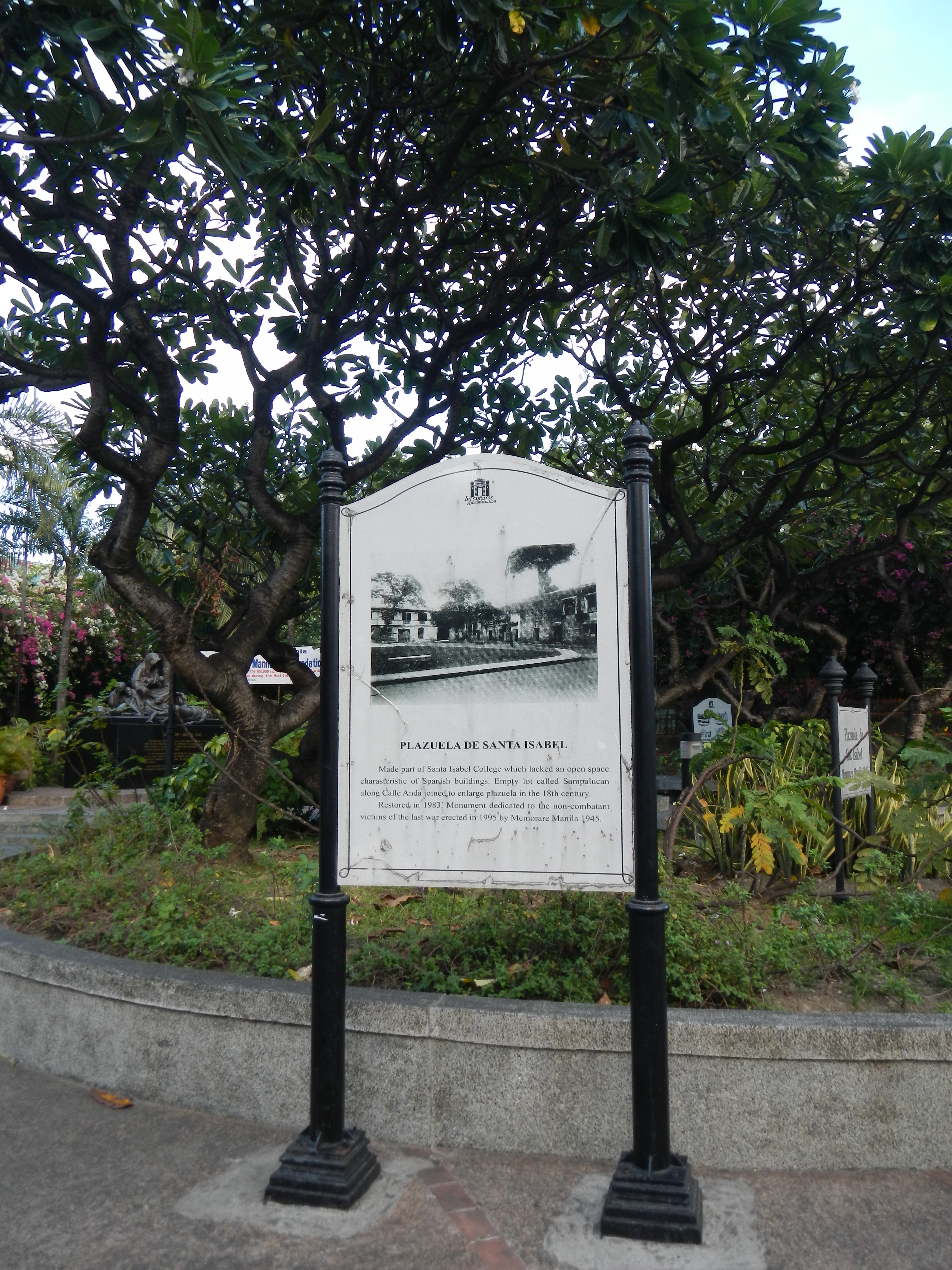 Plazuela de Santa Isabel - part of Santa Isabel College Manila[1][2] [3]Coordinates: 14°35'25"N 120°58'28"E Located on the corner of General Luna and Anda Street, this park holds a memorial built to commemorate the thousands of civilians massacred within Intramuros by desperate Japanese forces during the Battle of Manila in February 1945. The statue depicts St. Isabel caring for wounded during the battle of Intramuros. - Memorare Manila 1945 Foundation, Inc. [4] The Memorare Manila Monument in Intramuros commemorating the innocent people who died during the liberation of Manila.[5] It was made part of the Santa Isabel College which lacked an open space characteristic of Spanish buildings. Empty lot called Sampalucan along Calle Anda joined to enlarge plazuela in the 18th century. Plazuela de Santa Isabel was restored in 1983. A monument dedicated to the non-combatant victims of the last war in the Philippines was erected in February 18, 1995 by Memorare – Manila 1945. Memorare Manila 1945 The Memorare Manila 1945 is a memorial dedicated to all those innocent victims of war. Many of whom went nameless and unknown to a common grave or never even knew a grave at all, their bodies having been consumed by fire or crushed to dust beneath the rubble of ruins.